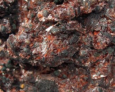 Jarosite Locality: Sierra Peña Blanca, Peña Blanca District, Municipio de Aldama, Chihuahua, Mexico (Locality at ) Size: 6.1 x 4.3 x 1.5 cm. Almost completely covering its matrix is a cluster of reddish-brown jarosite crystals exhibiting a waxy luster. The crystals reach .7 cm across and are composed of potassium, iron sulfate. This species is rarely found on the market and crystals such as this, from a small find at this remote uranium mine, are considered by most people to have been the world's best. They came out twice, once from the mine itself and once from the dumps. Ex. James Zigras Collection.